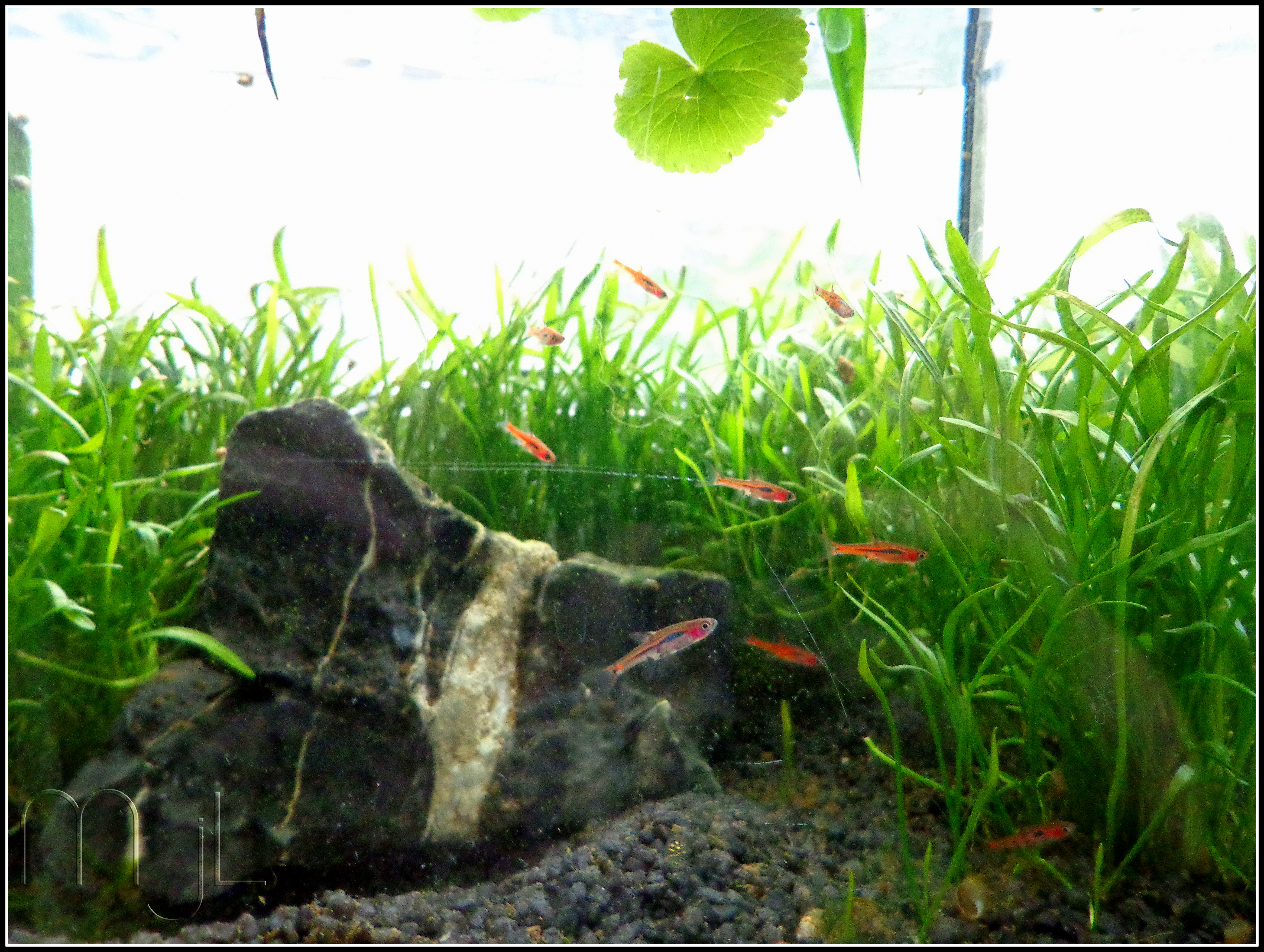 Boraras brigittae in nano tank